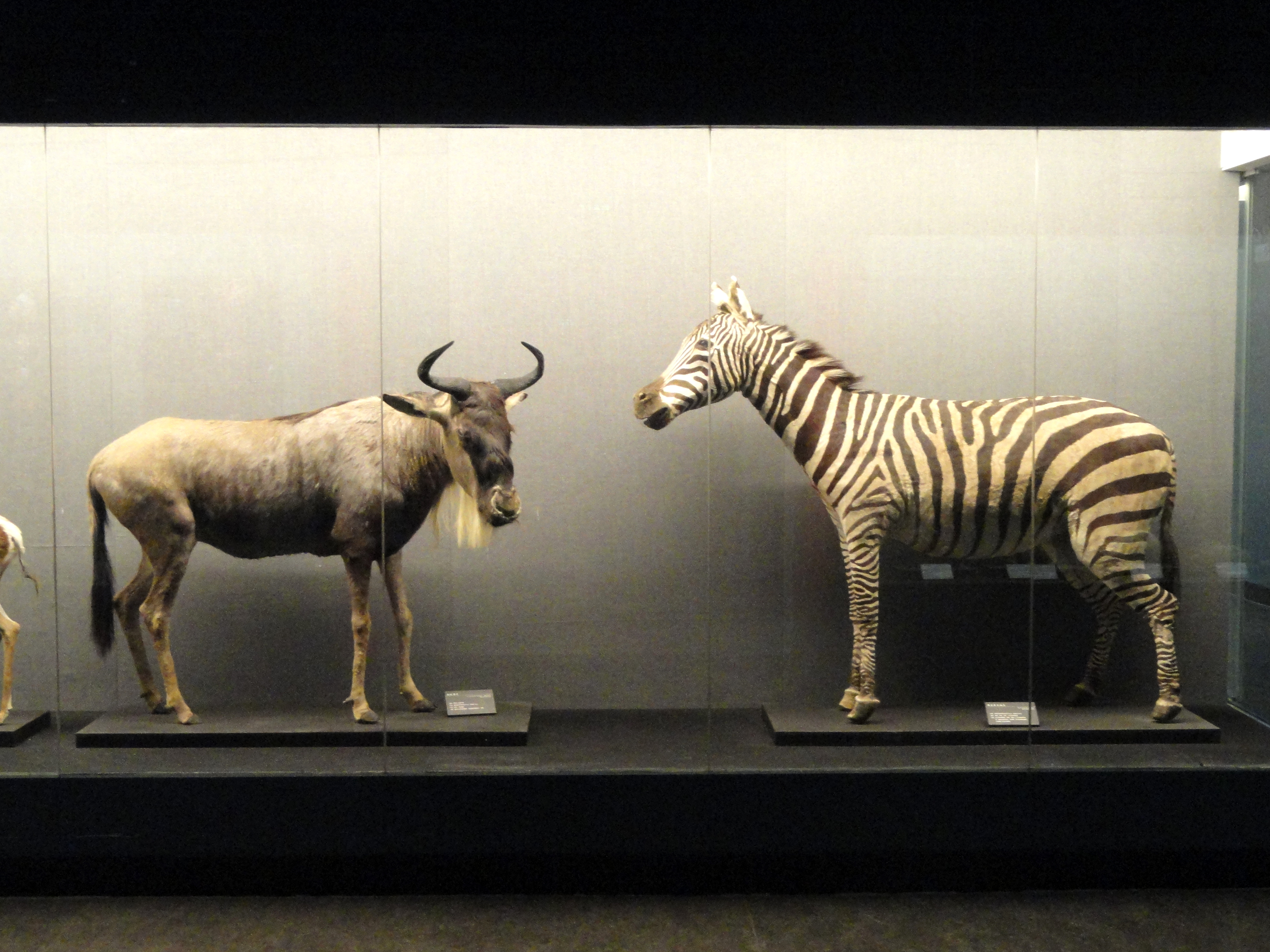 Taxidermy exhibit in the Kunming Natural History Museum of Zoology (昆明动物博物馆), Kunming, Yunnan, China.